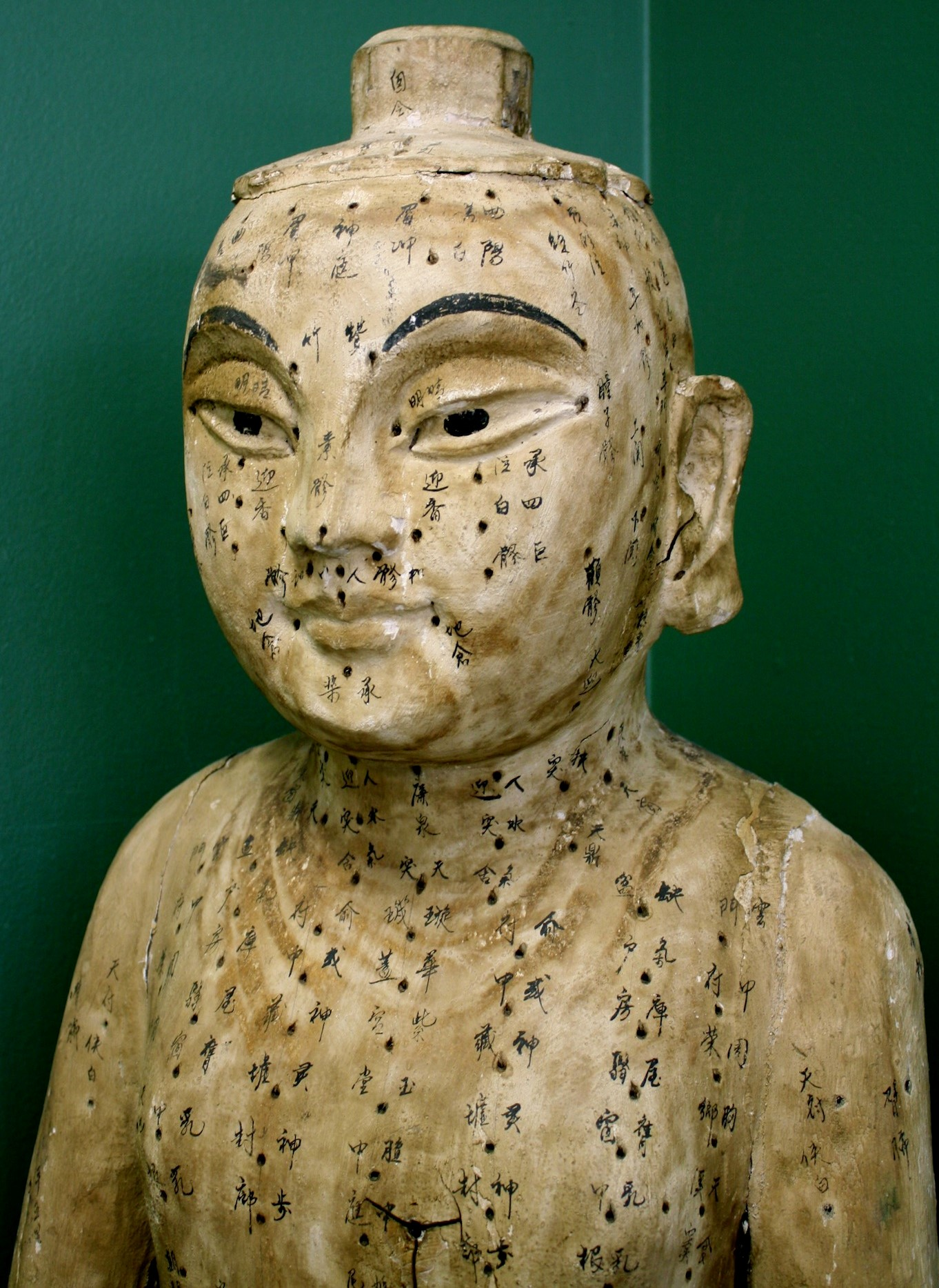 An ancient Acupuncture statue sits in the lobby of the Emperor College clinic. Photo by Liana Aghajanian. Full story